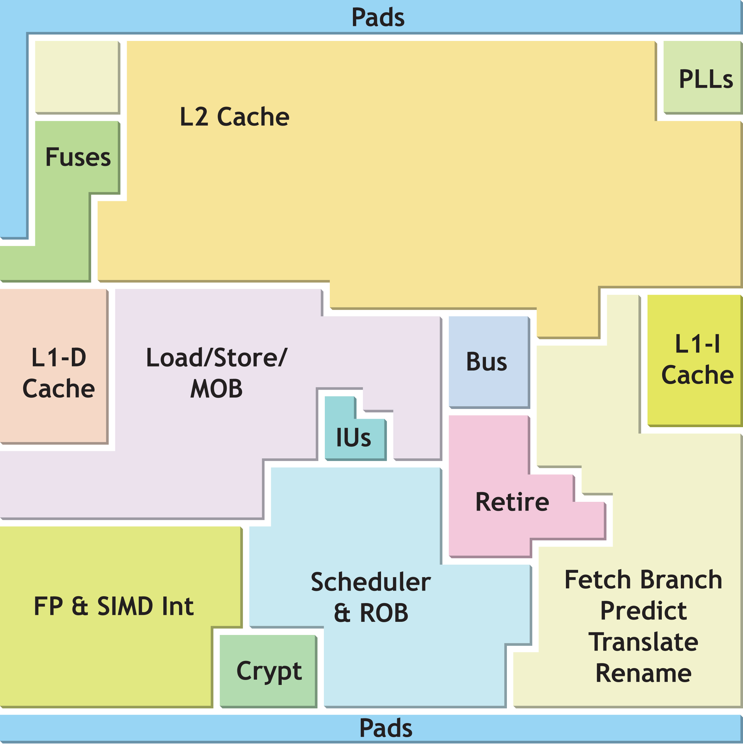 VIA Isaiah Architecture block diagram